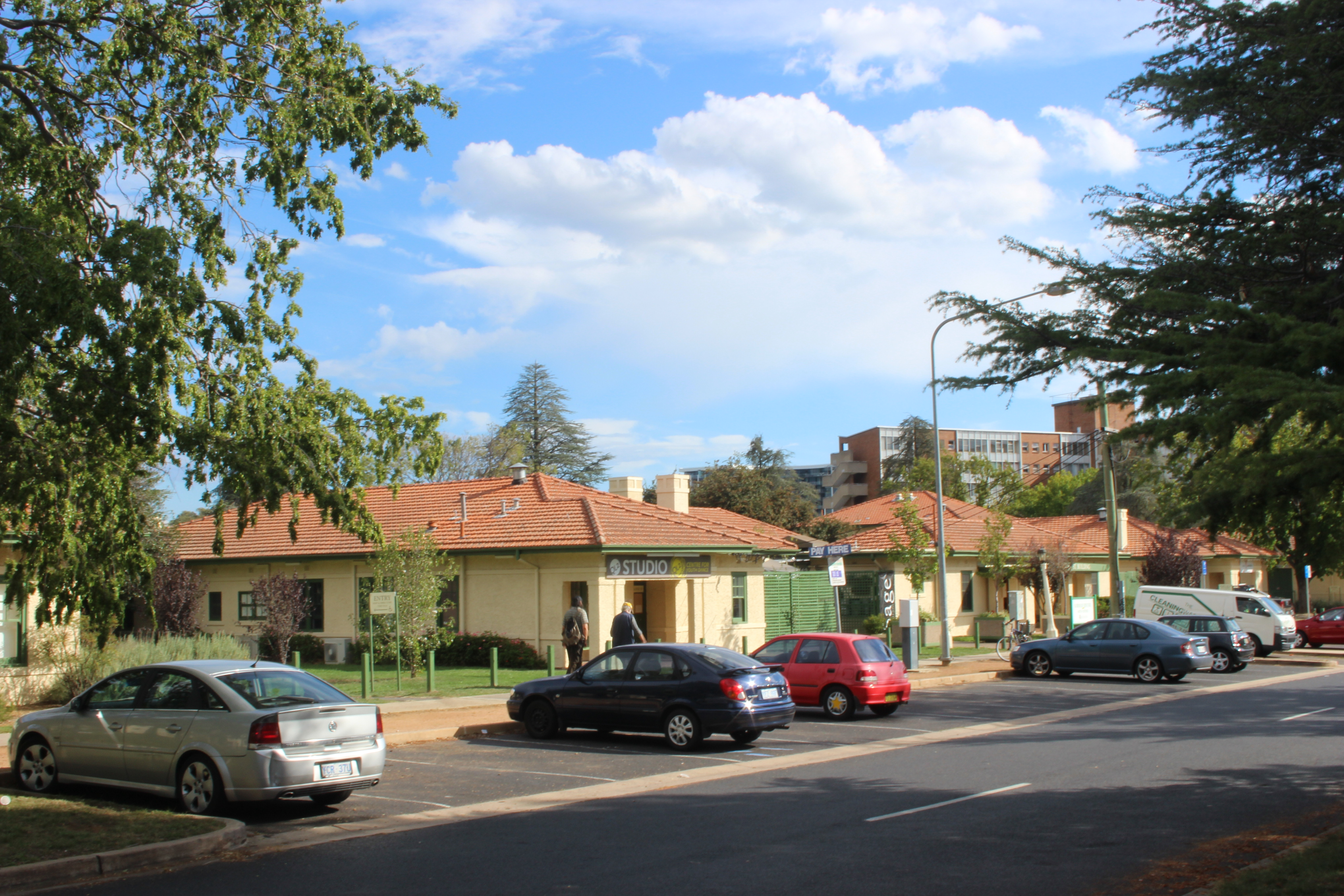 Gorman House Arts Centre